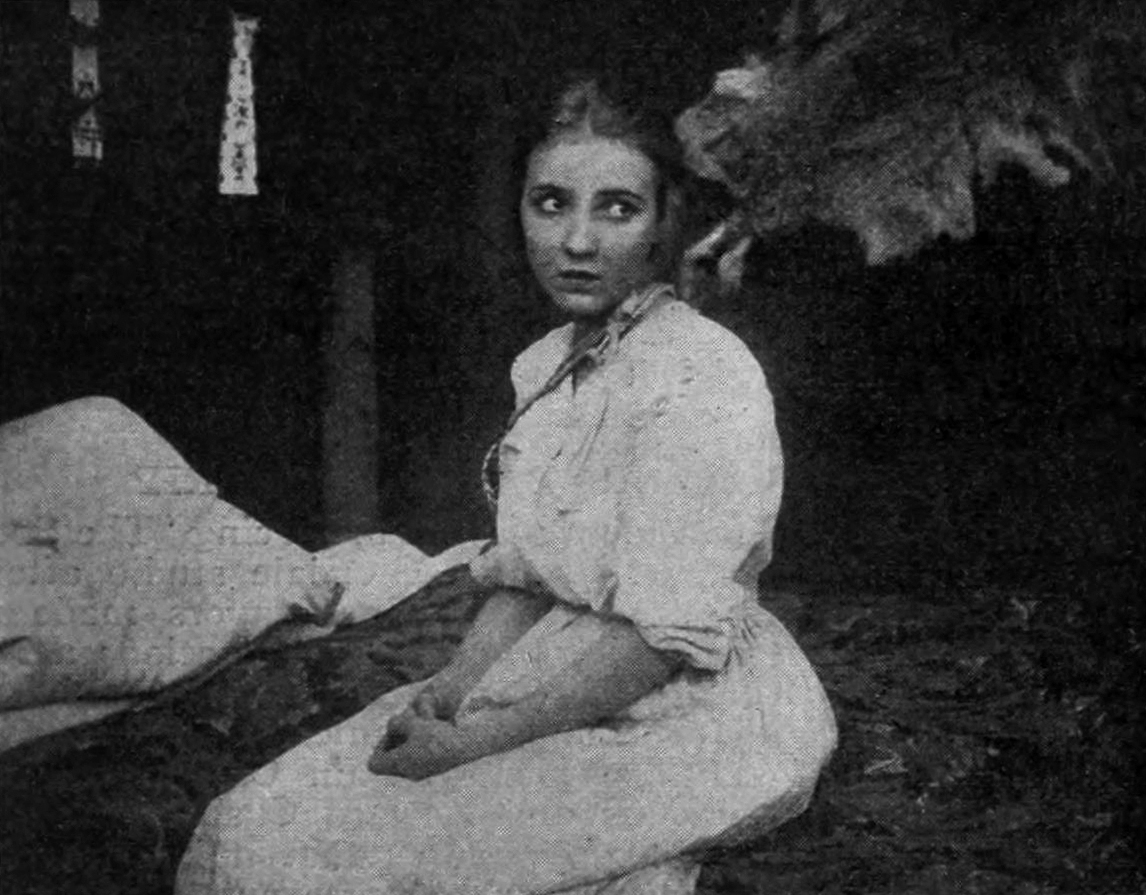 Bessie Love in The Aryan (1916)